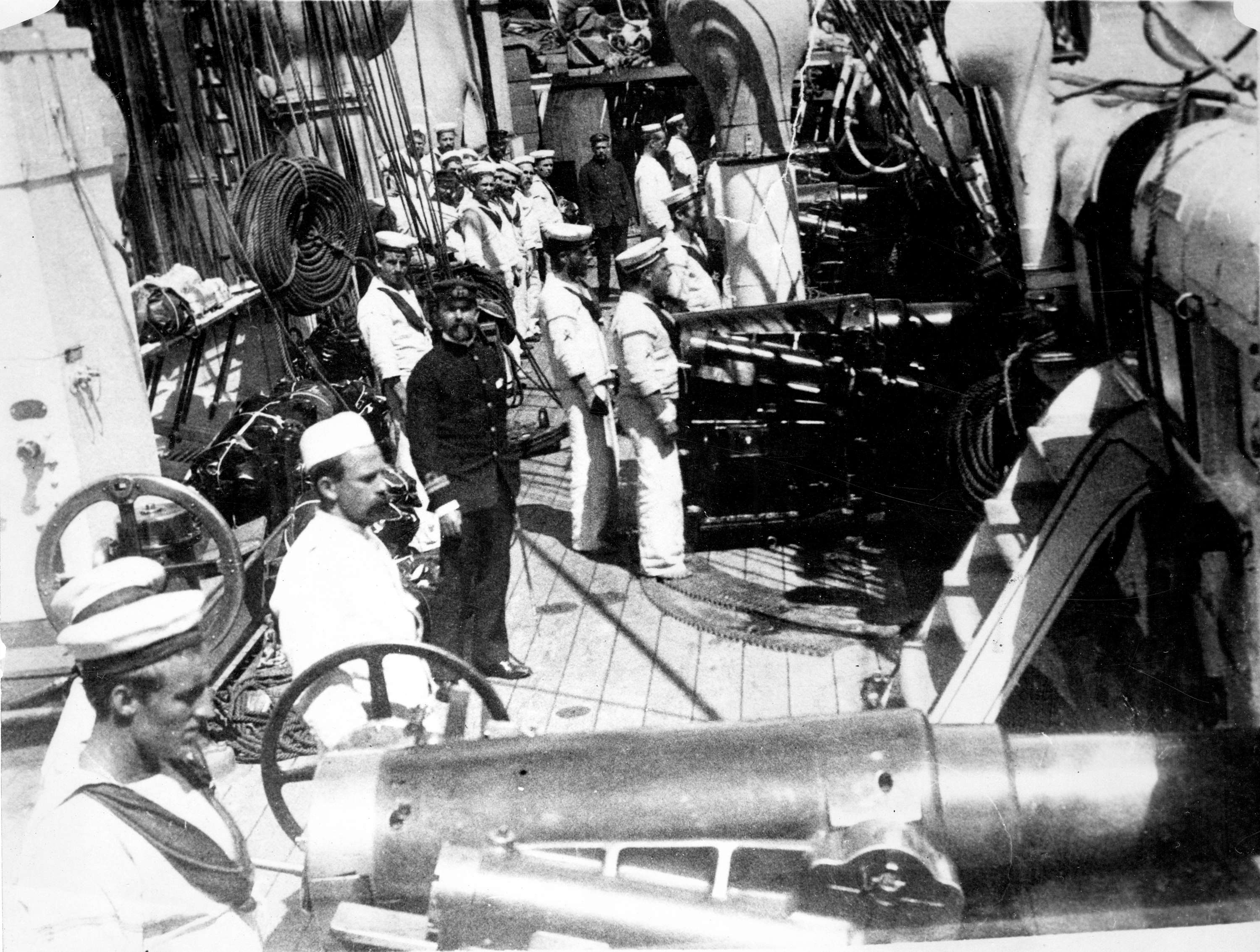 Gunnery drill aboard HMS Caroline. British Columbia, Canada. Comment : The guns are BL 5-inch.